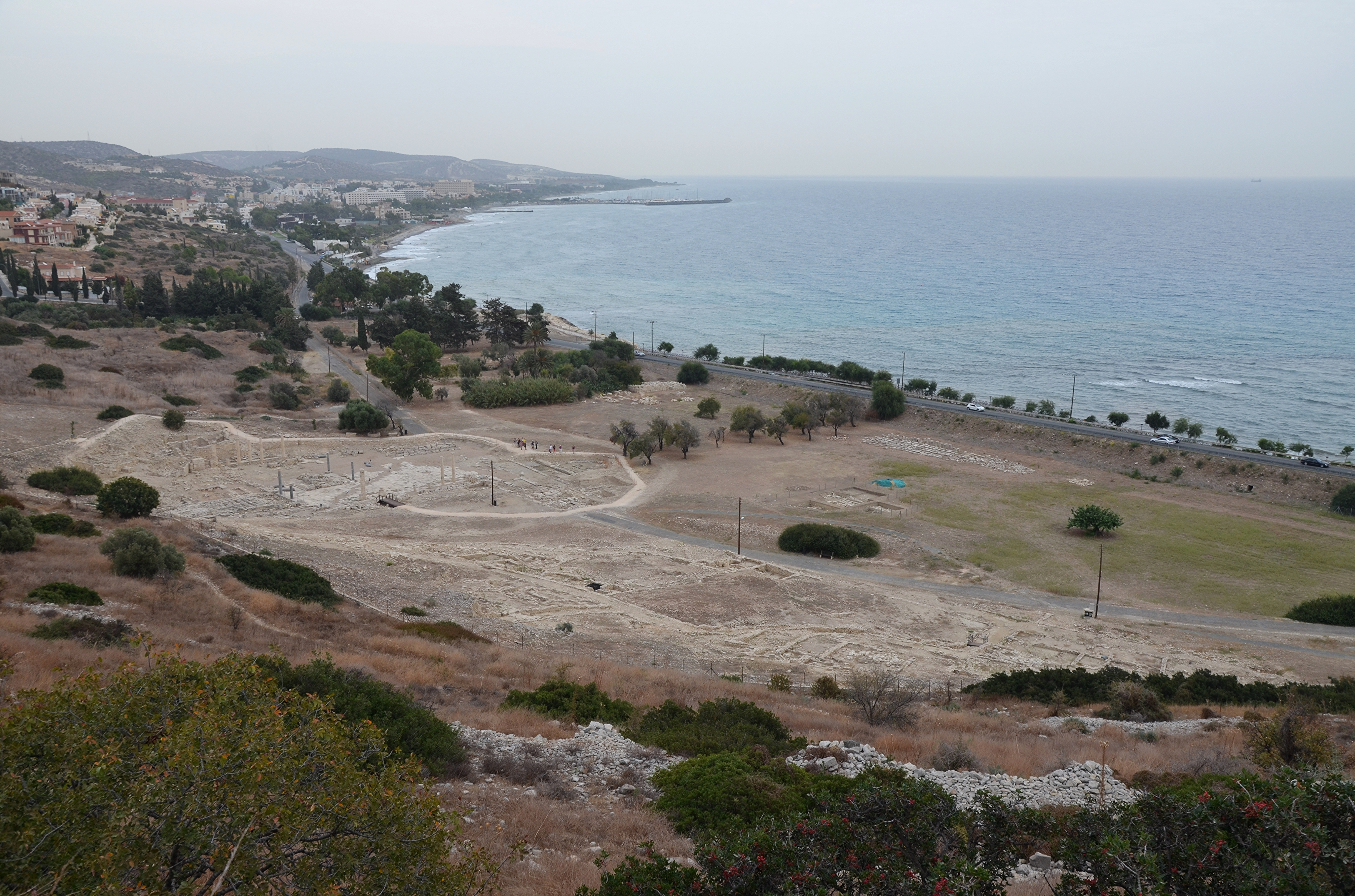 Overview of the Agora and lower city from the Acropolis of Amathous, Cyprus.